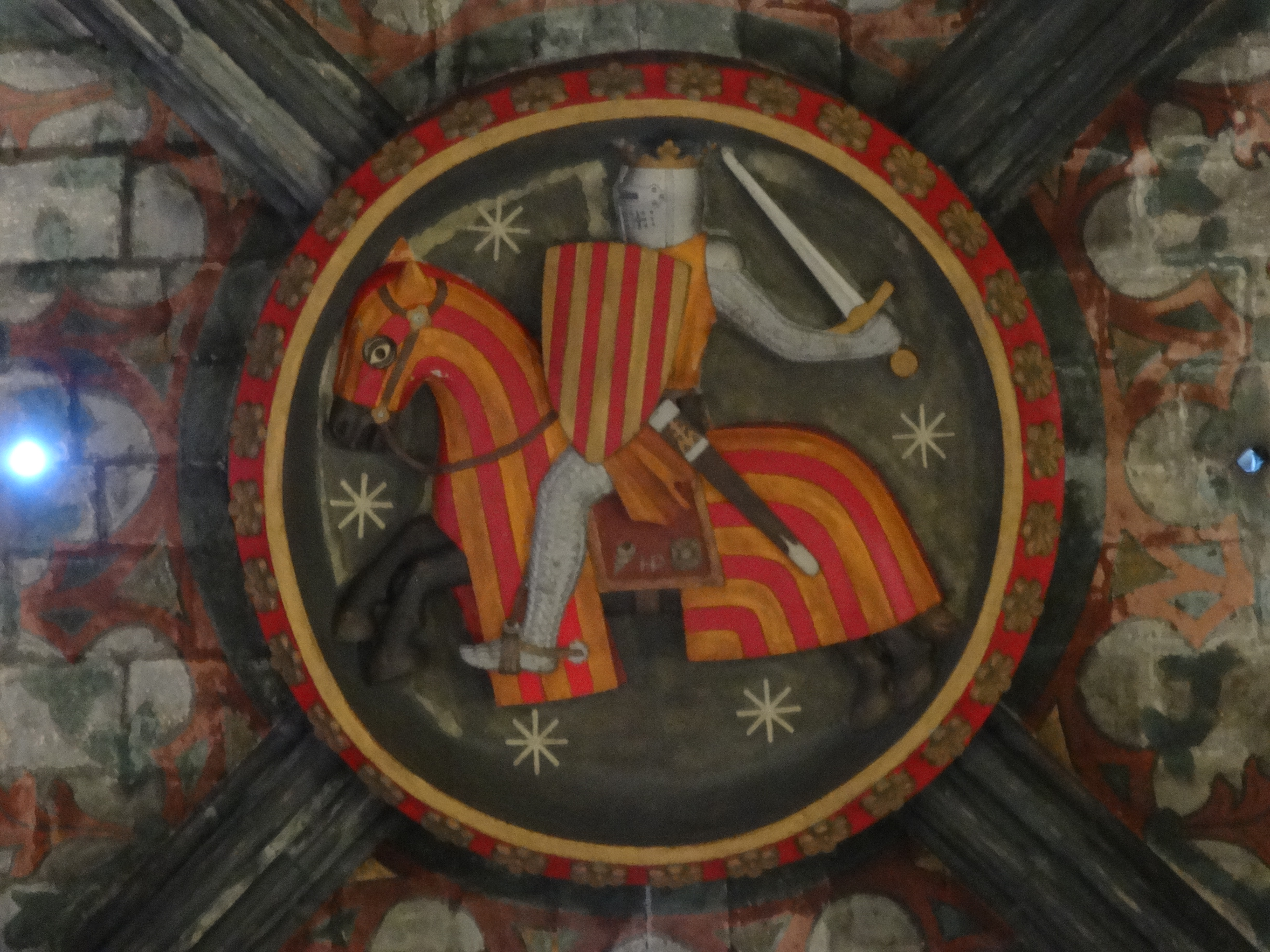 Boss at the ceiling of Santa Maria del Mar church in Barcelona